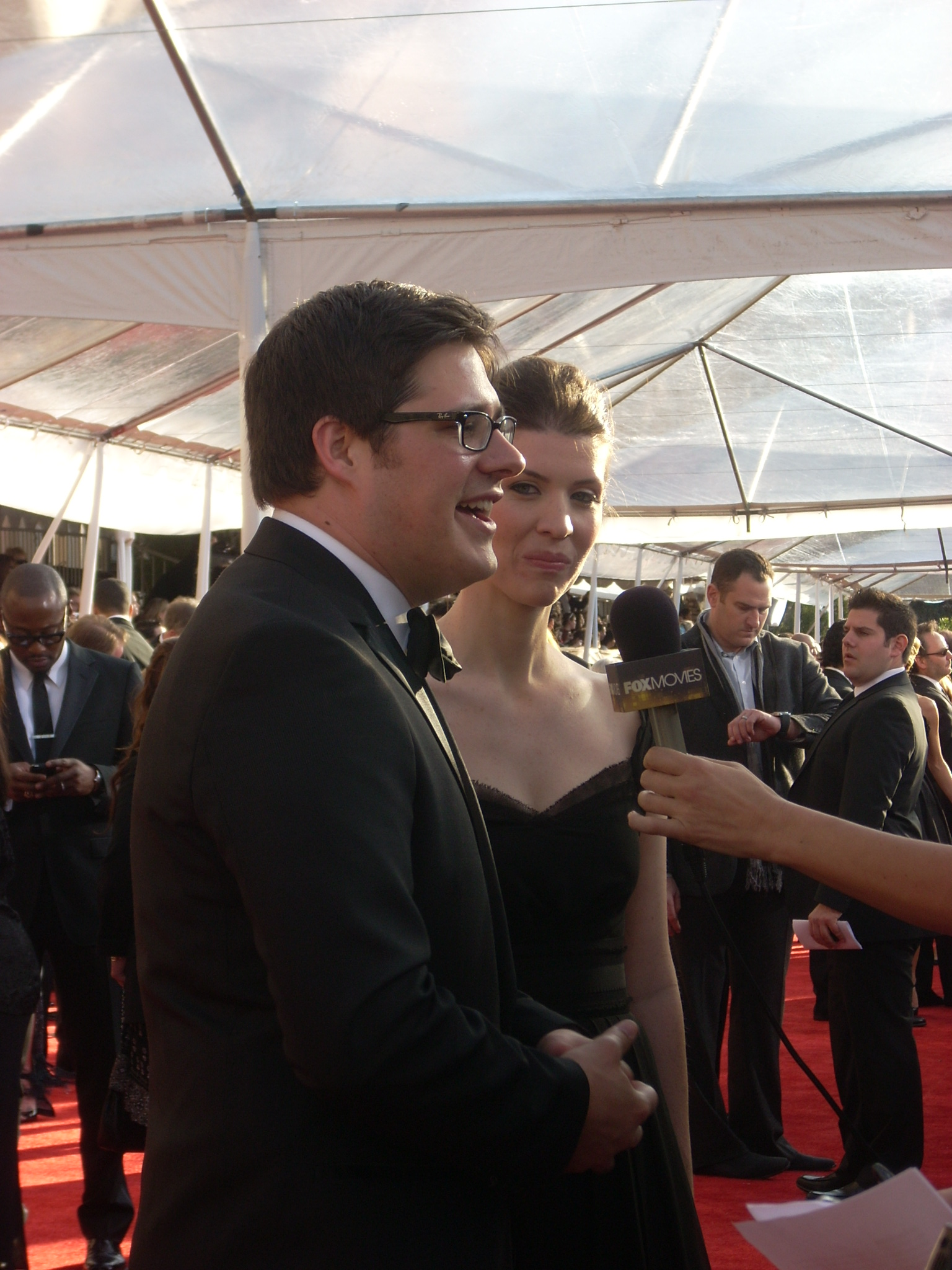 Actor Rich Sommer, star "Mad Men", at the 15th Screen Actors Guild Awards